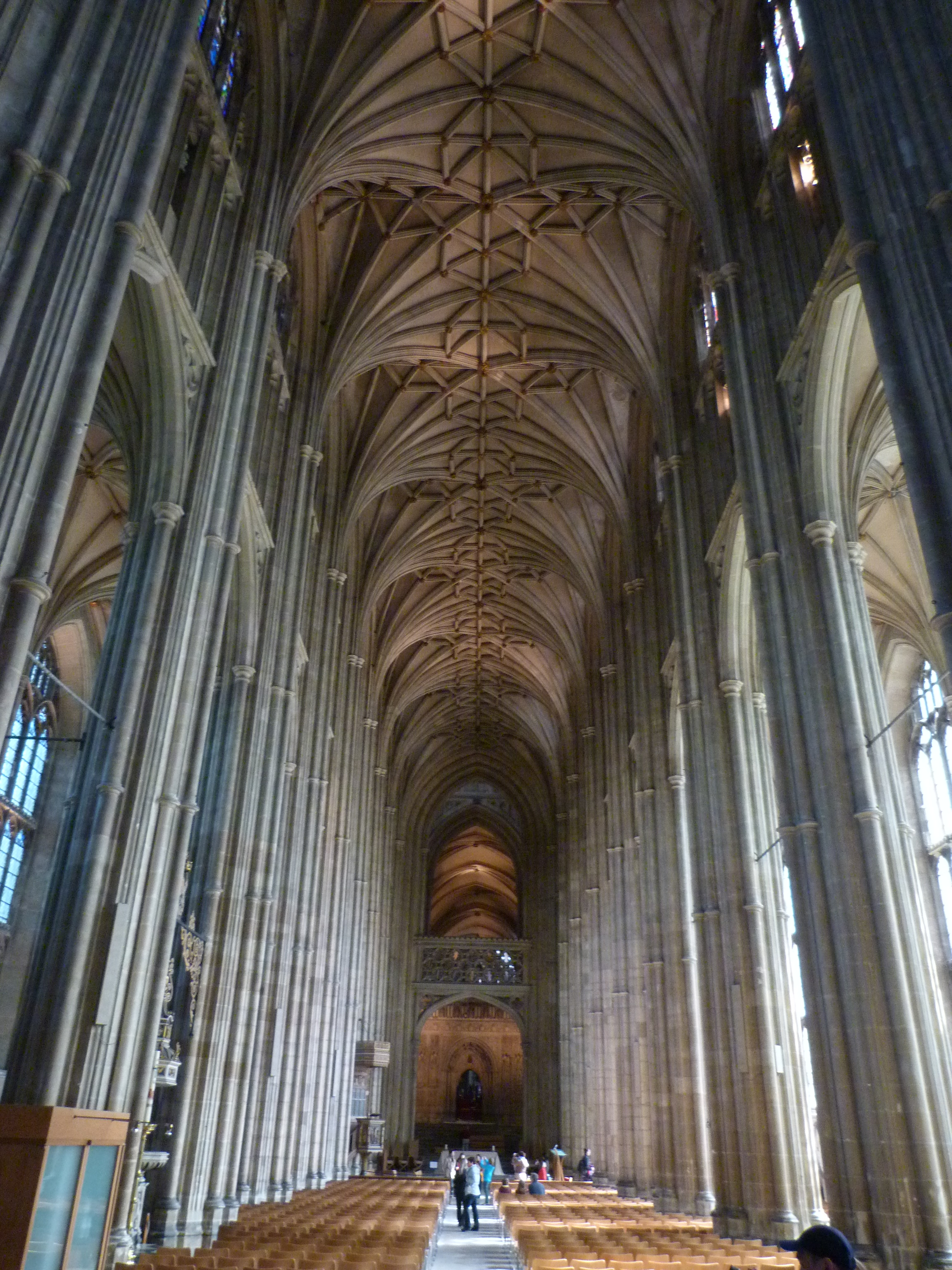 Canterbury Cathedral nave